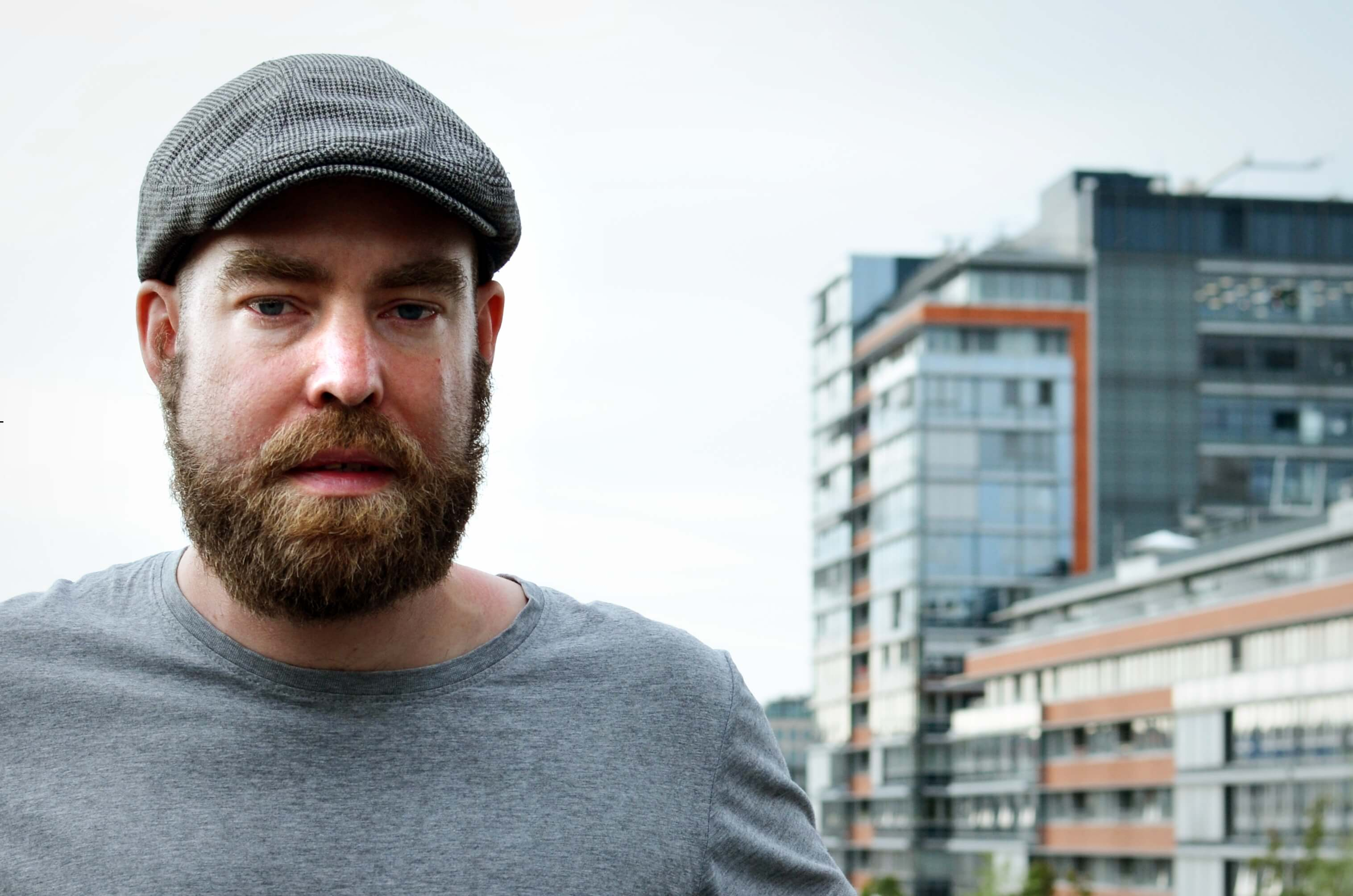 Björn Thoroe in front of the Germaniahafen in Kiel.